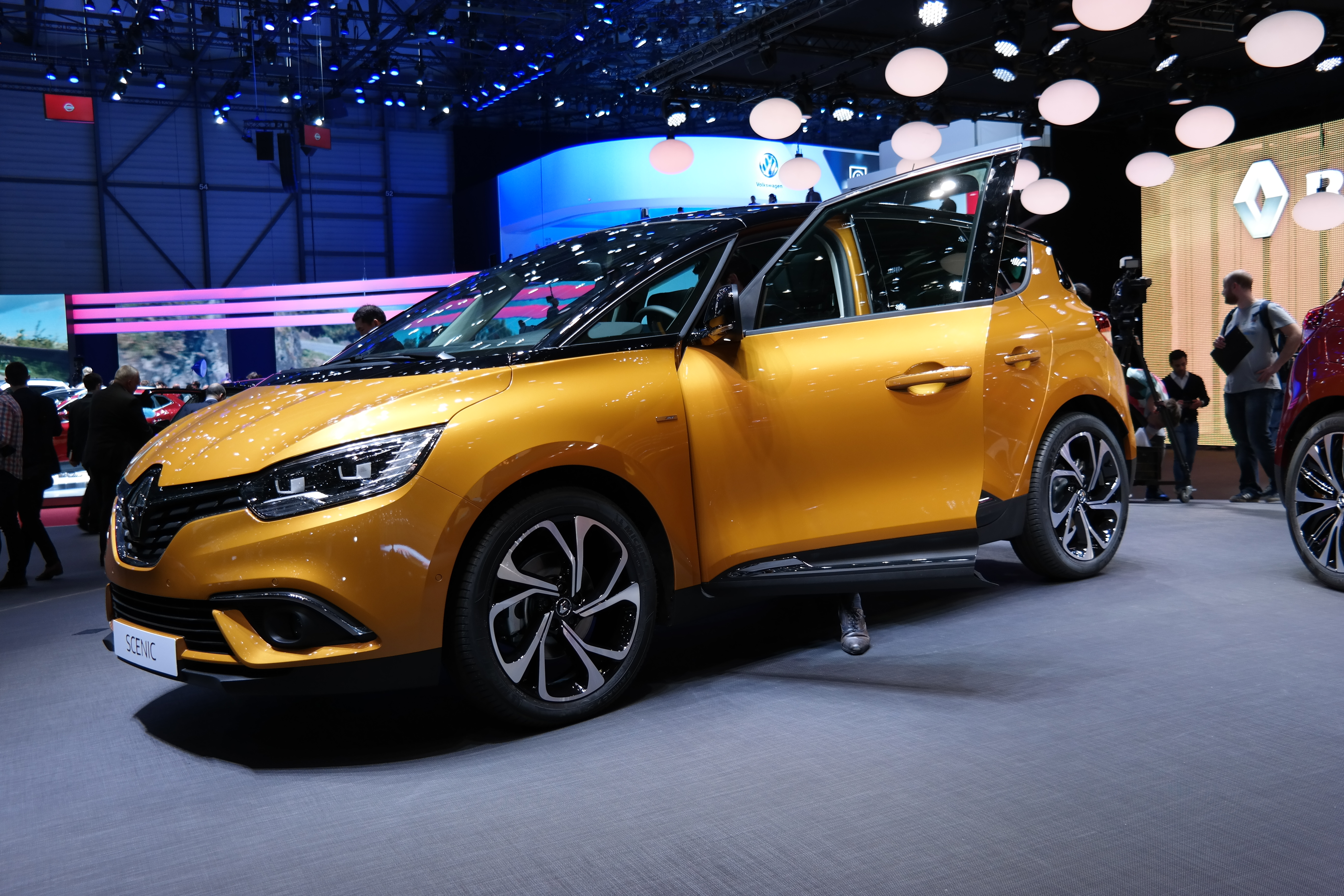 Geneva Motor Show 2016 (photo taken on the first press day)